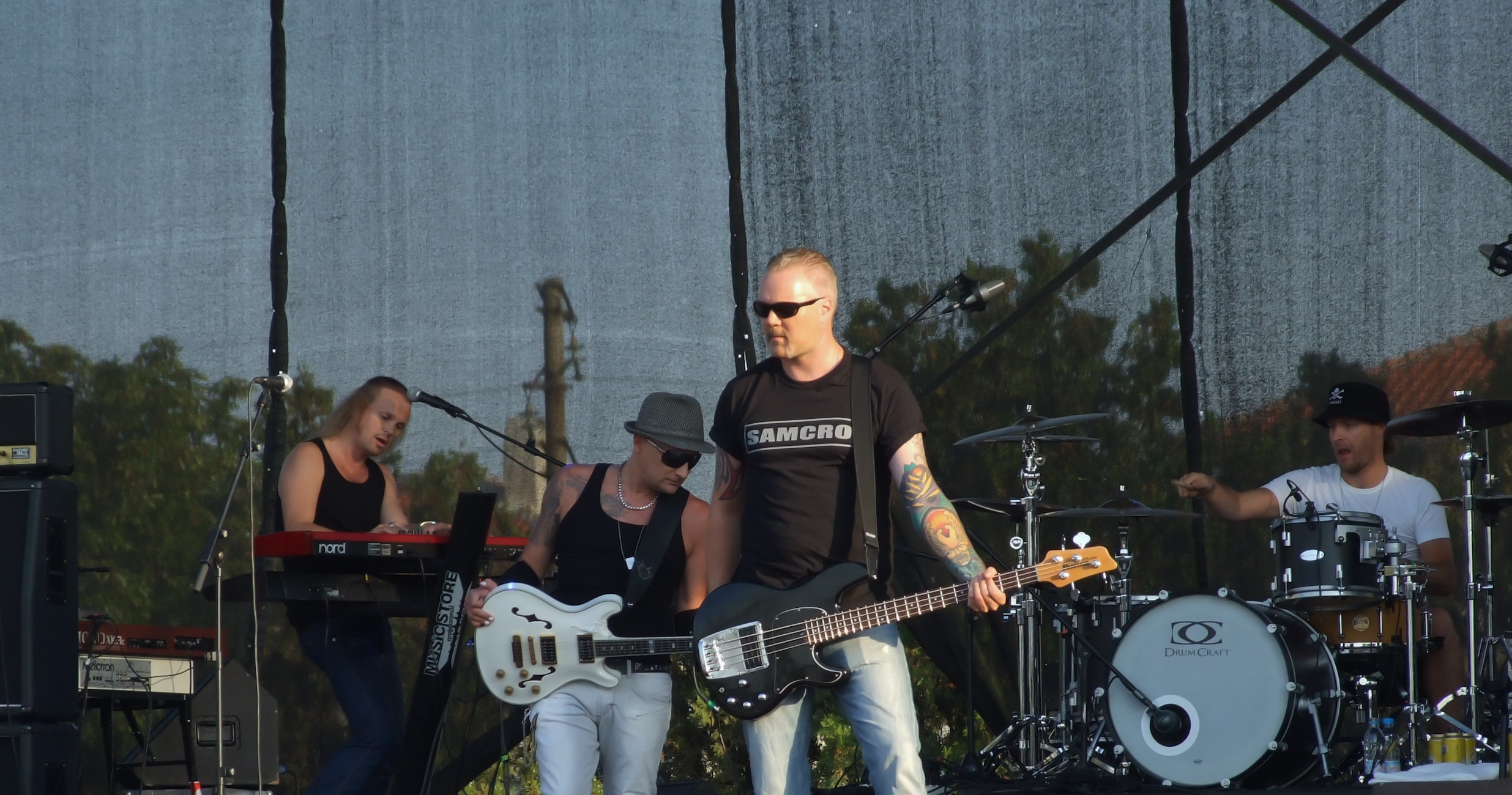 The Swedish rock band Tiamat at Kavarna Rock Fest 2011, Bulgaria.